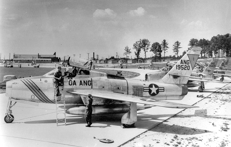 158th Fighter-Interceptor Squadron F-84Fs on alert at Travis Field, Georgia, 1957. General Motors F-84F-40-GK Thunderstreak 51-9520 in foreground